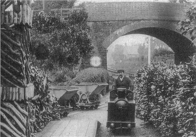 Blakesley Miniature Railway